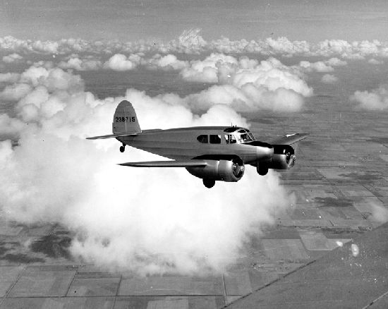 Cessna AT-17 "Bobcat" trainer of the United States Army Air Forces.